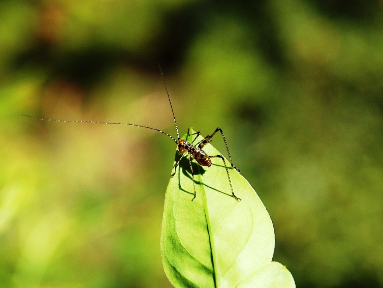 Phaneroptera nana Fieber, 1853 (neanide)